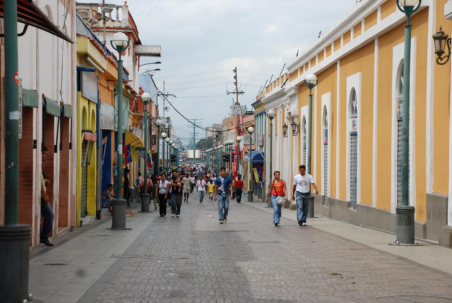 City centre, Valencia, Venezuela